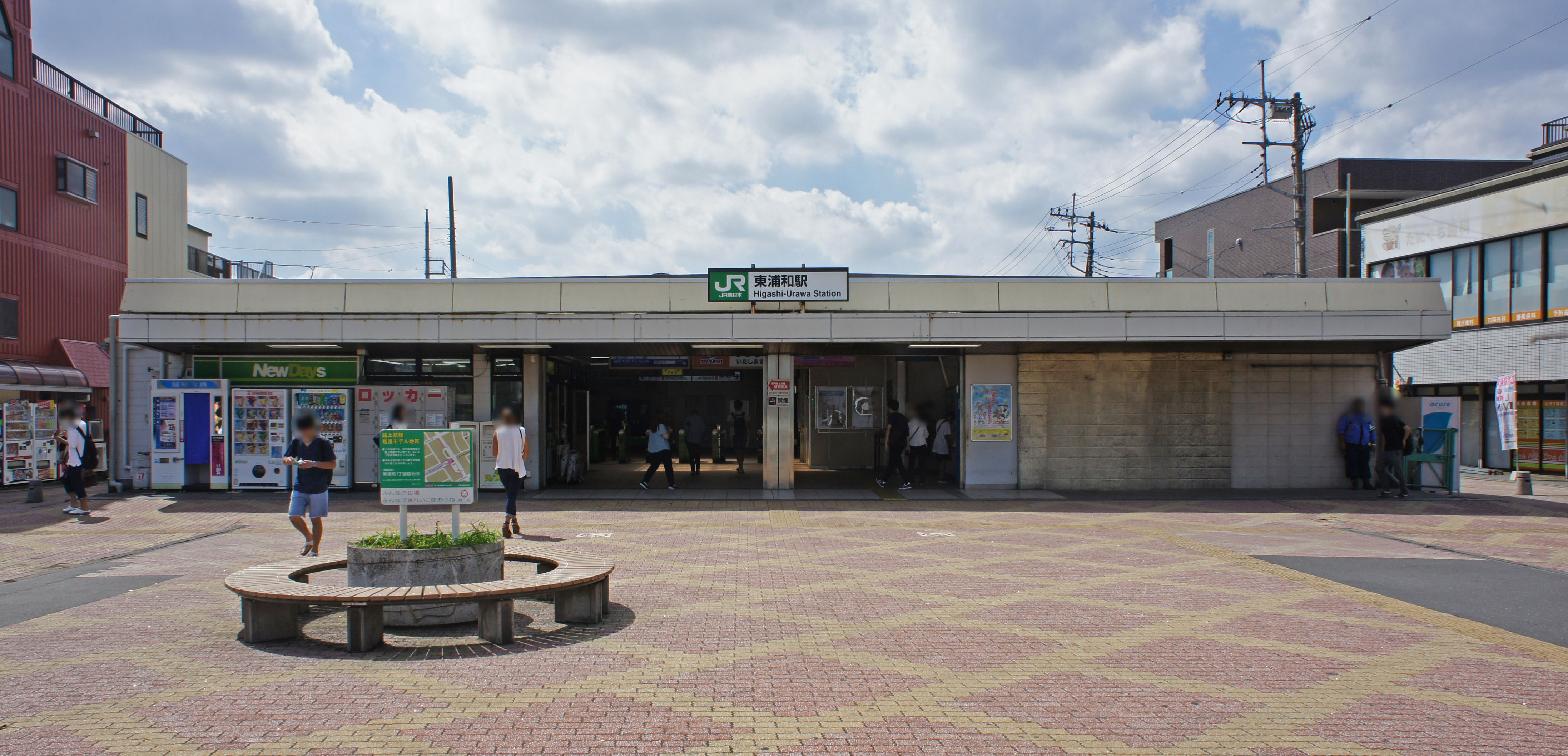 Station building of JR Musashino-Line Higashi-Urawa Station